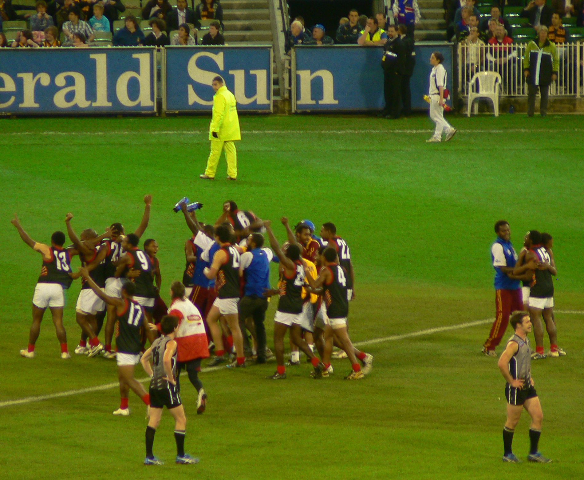 Shortly after the siren. Papua New Guinea's Mosquitos celebrate taking the International Cup from New Zealand to become International champions.